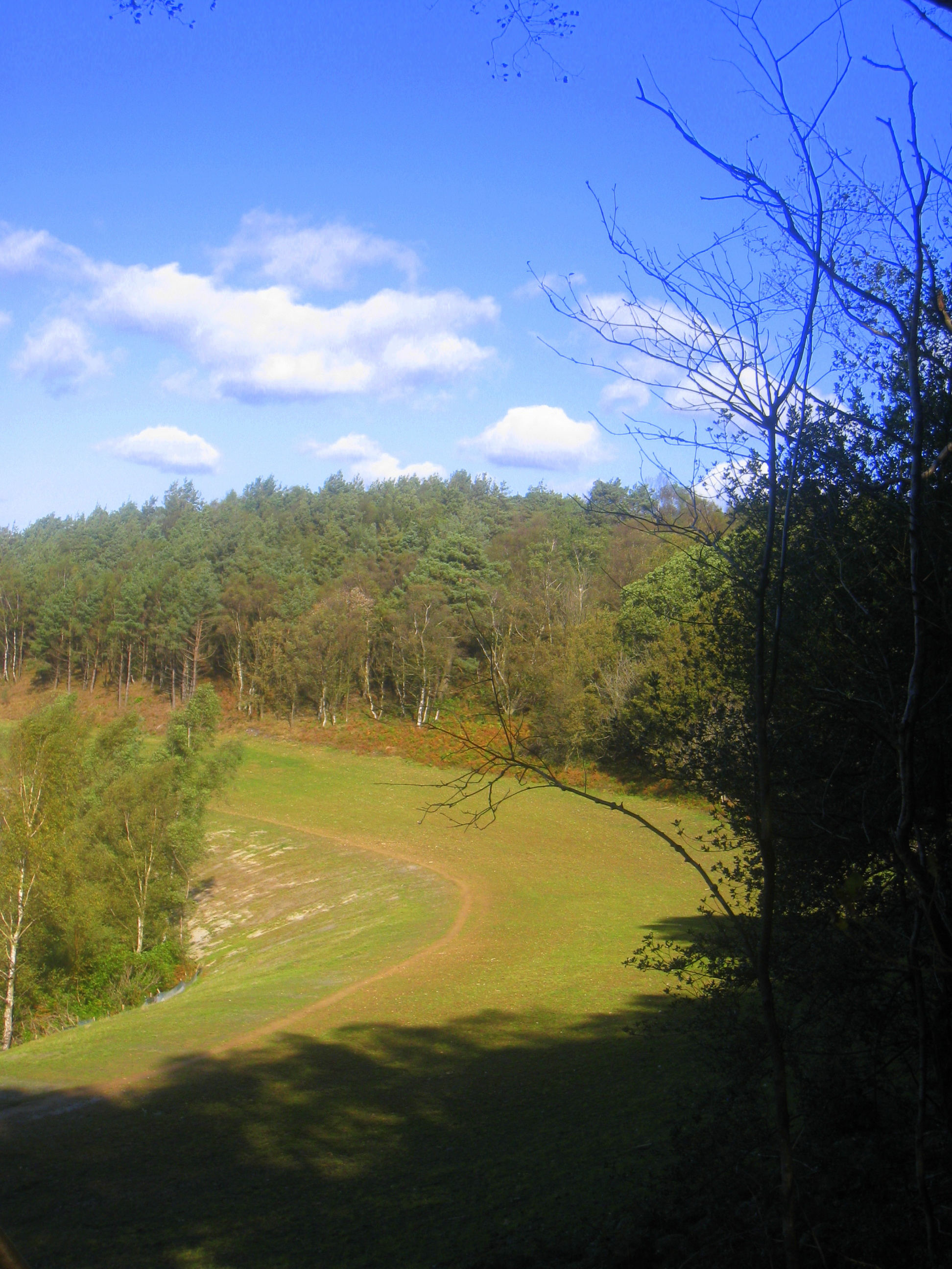 Route of the old A3 close to Gibbet Hill, Hindhead, Surrey. The route of the old A3 that has been replaced by the Hindhead Tunnel taken from close to Gibbet Hill. The old road is being returned to nature.